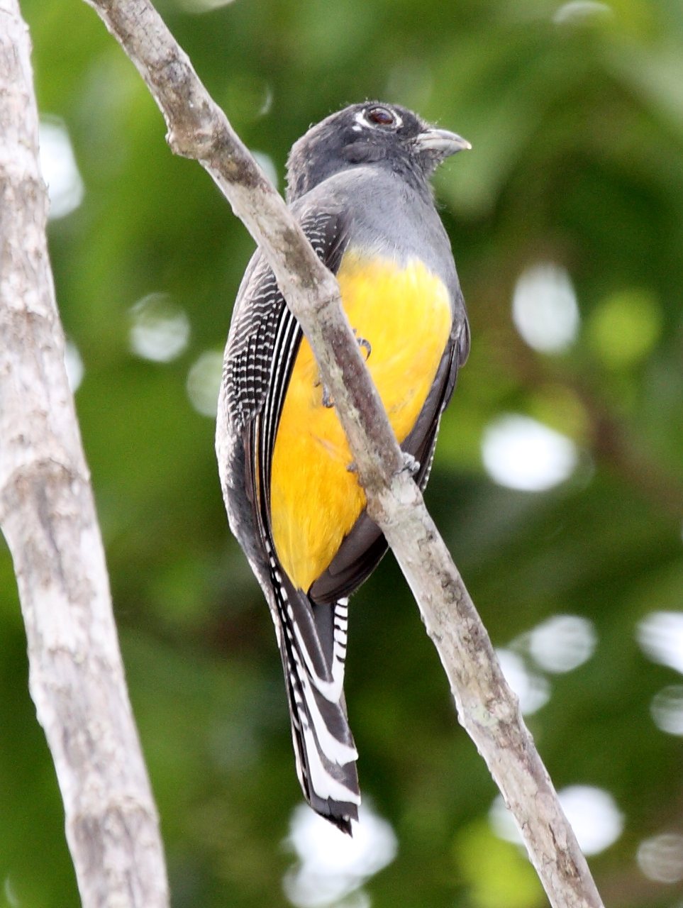 femaled gartered trogon (Trogon caligatus), Panama